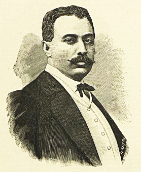 António de Sousa Silva Costa Lobo (1840-1913), a Portuguese writer and historian.